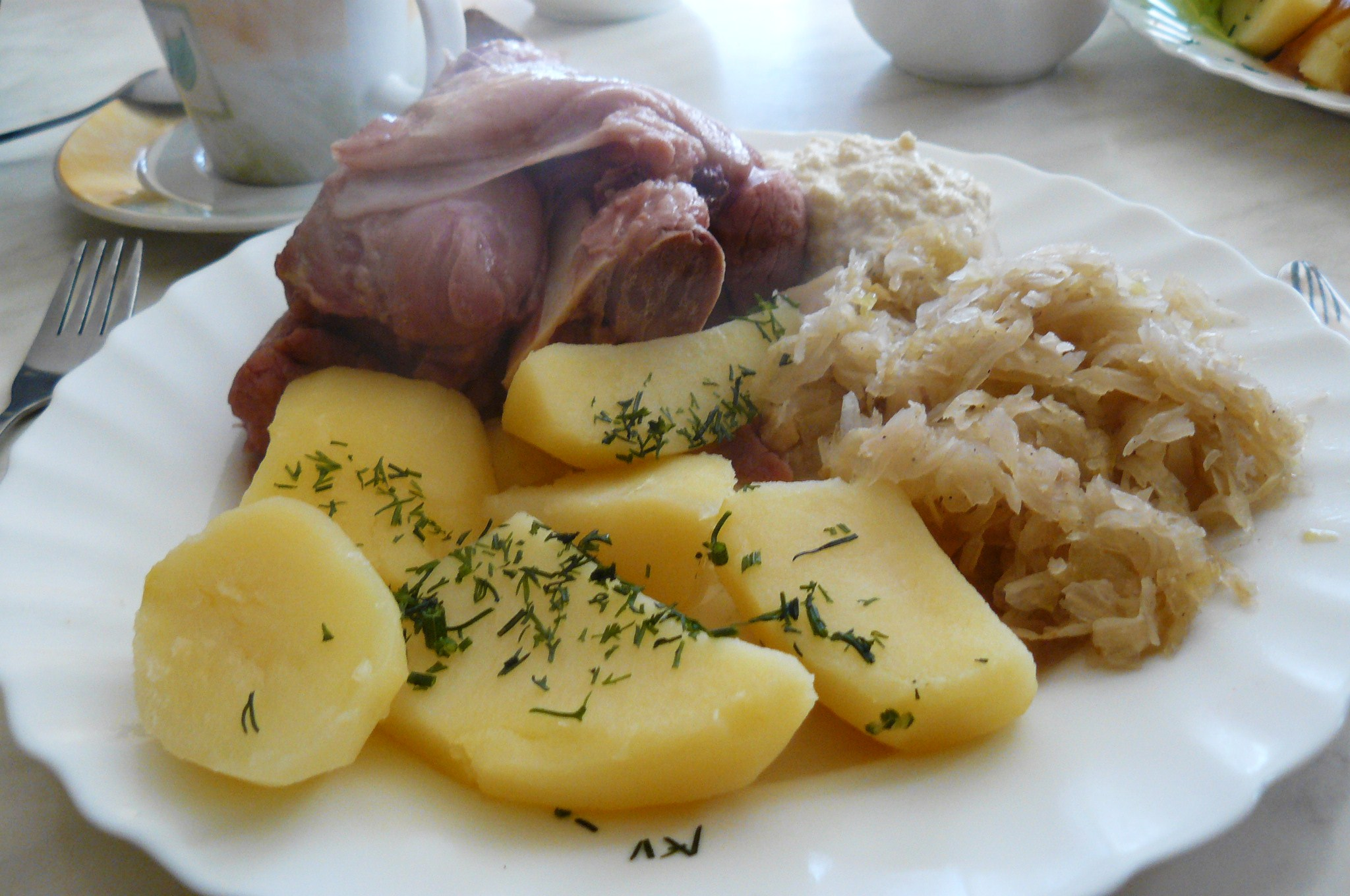 Traditional Polish cuisine dish (Poznań) - boiled pork (golonka), potatoes, cabbage. The dish is served in the restaurant Pelikan in Poznań. The restaurant has won the competition for the best dish (2009).